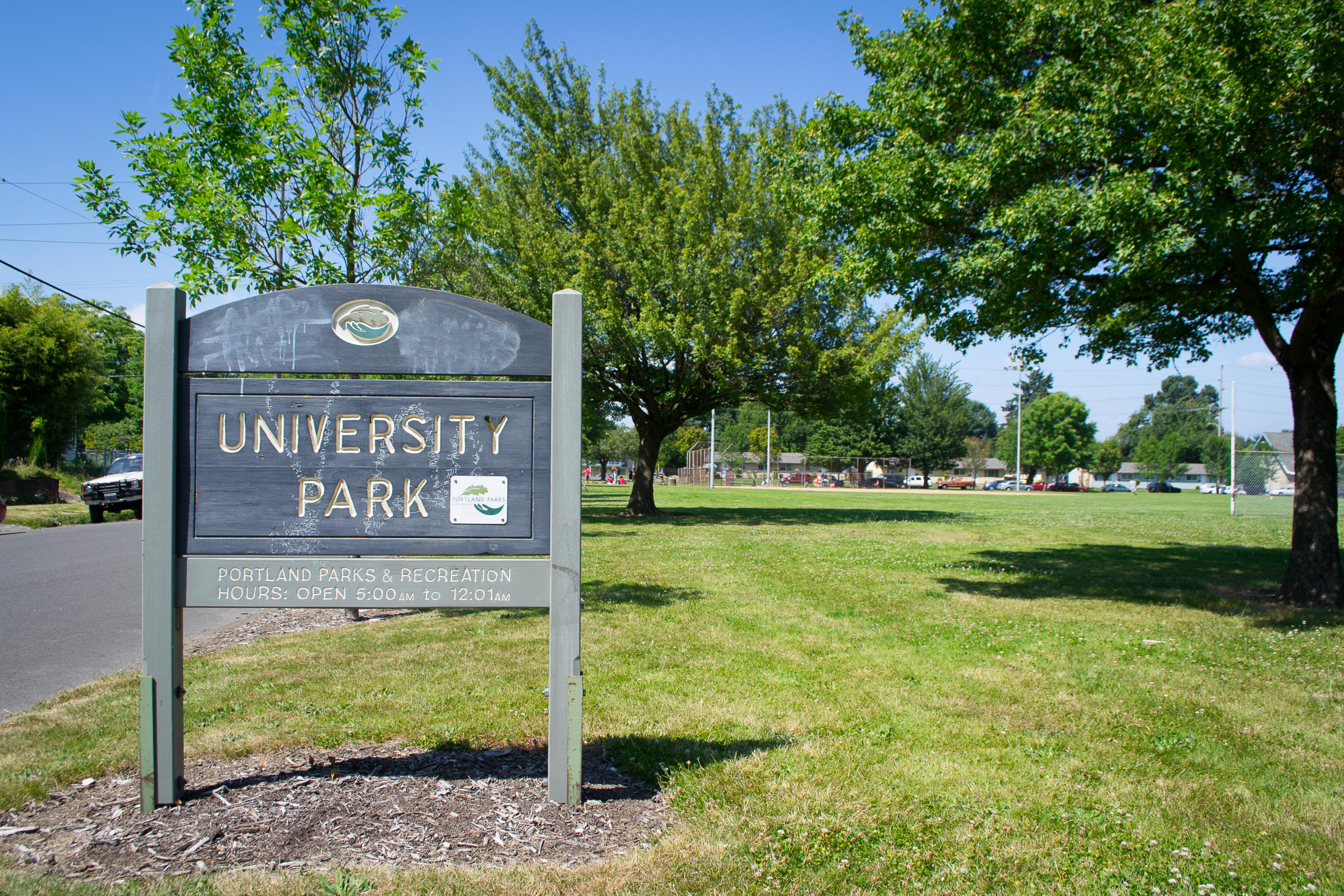 University Park in Portland, Oregon